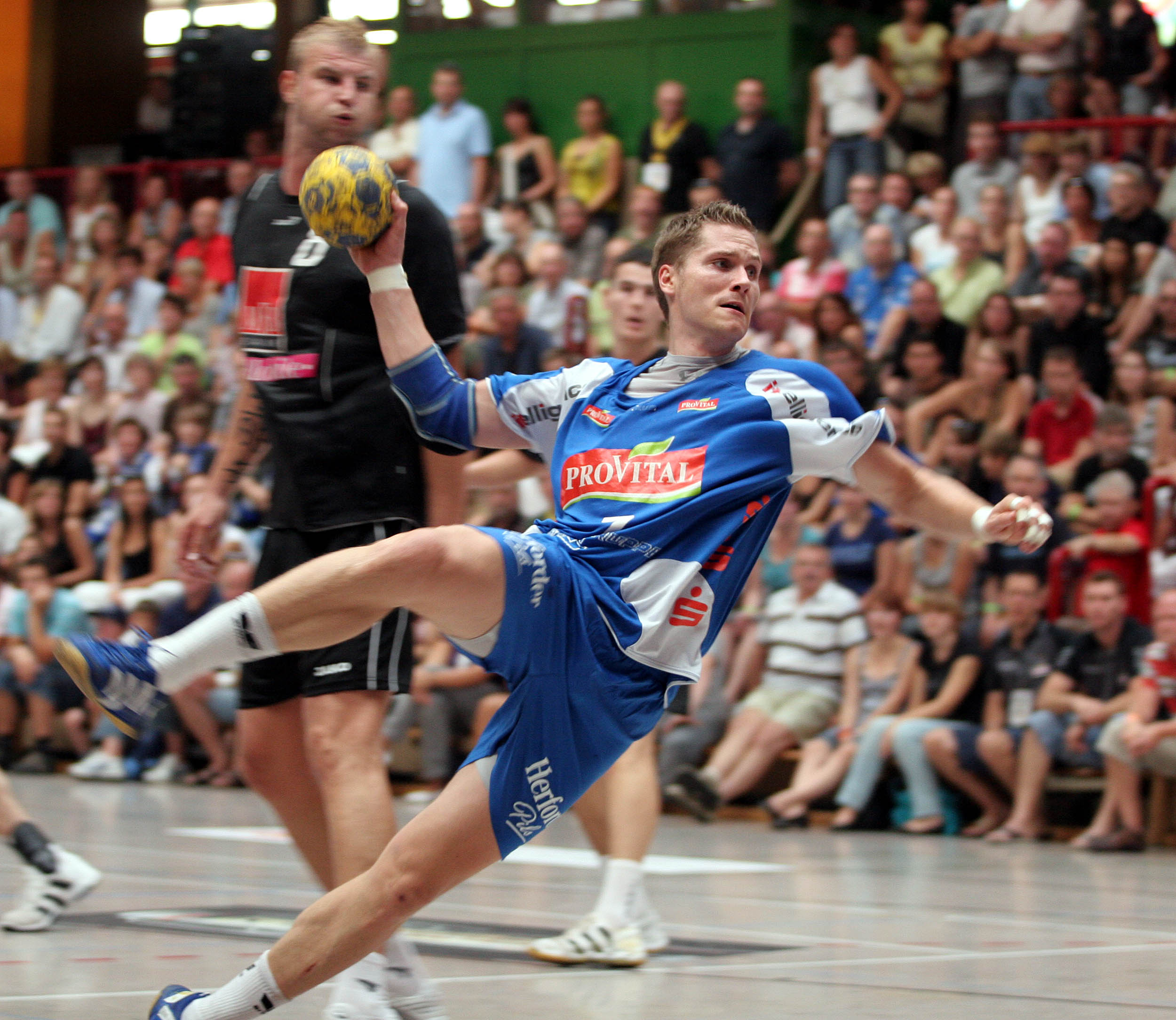 Sebastian Preiß, handball player fdrom TBV Lemgo, on August 30th, 2008 in Ehingen prior a game for the Schlecker Cup 2008